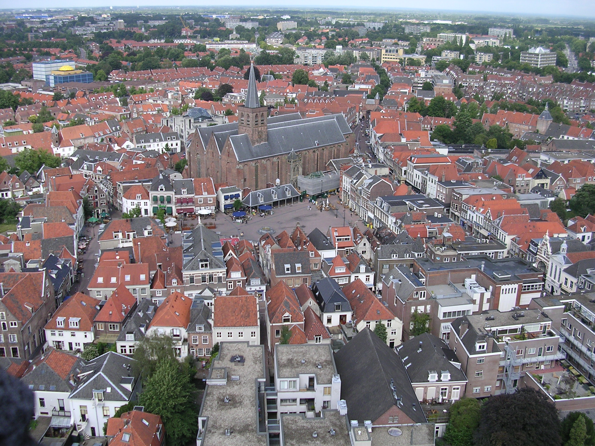 Sint-Joriskerk and suroundings in Amersfoort